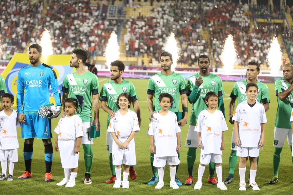 Al-Ahli FC v FC Barcelona December 16, 2016